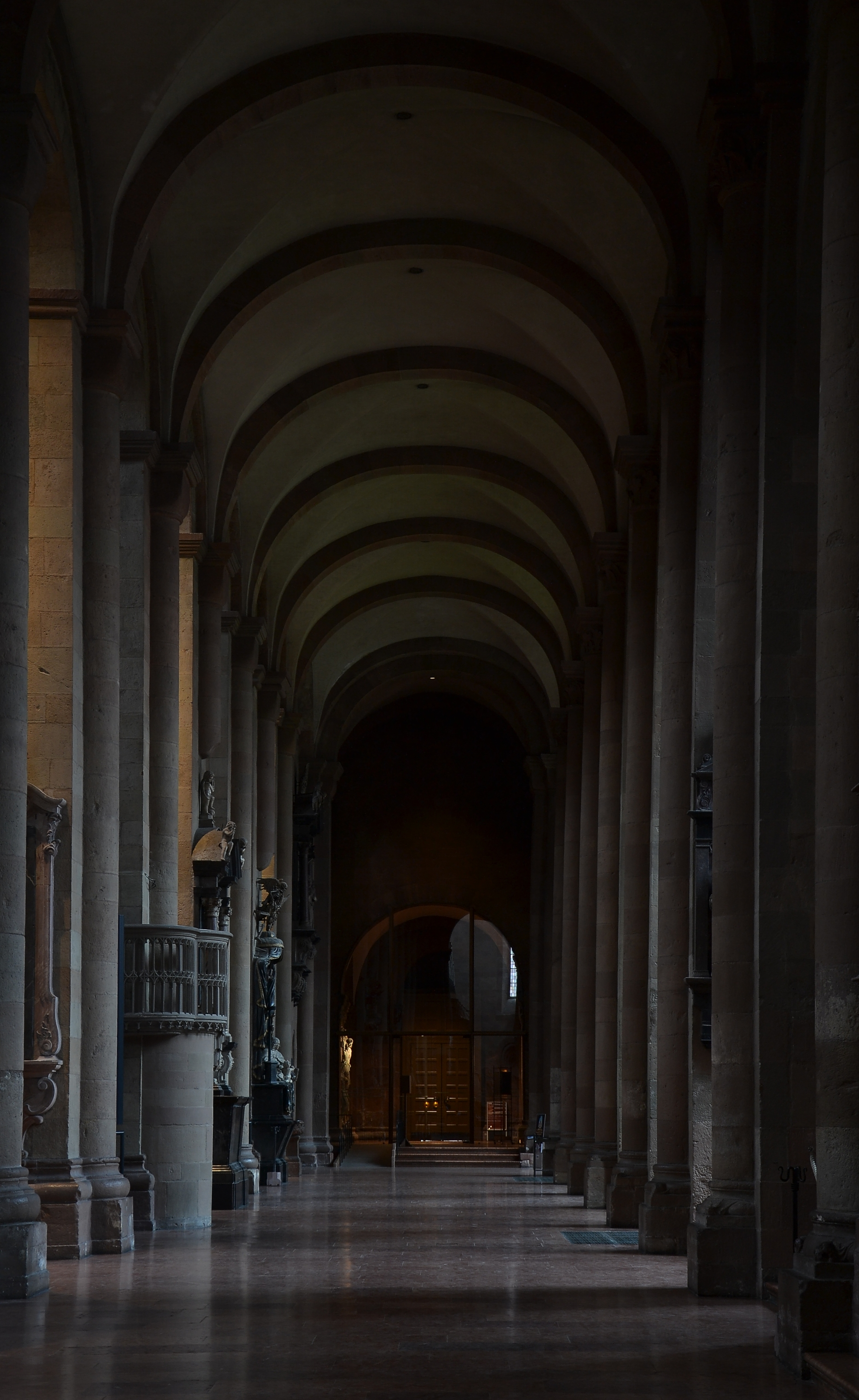 Eastward view of the southern aisle of Mainz Cathedral